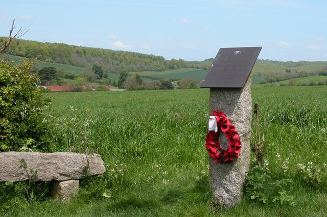 Memorial to Bolesław Własnowolski V.M., K.W. The inscription reads: In this field, on 1st November 1940 Pilot Officer Bolesław Własnowolski V.M., K.W. Royal Air Force 213 Squadron R.A.F. Tangmere (formerly of the Polish Air Force) Died aged 23 when his "Hurricane" V7221 crashed following aerial combat with a German Me109. HE DIED DEFENDING BRITAIN, POLAND AND FREEDOM